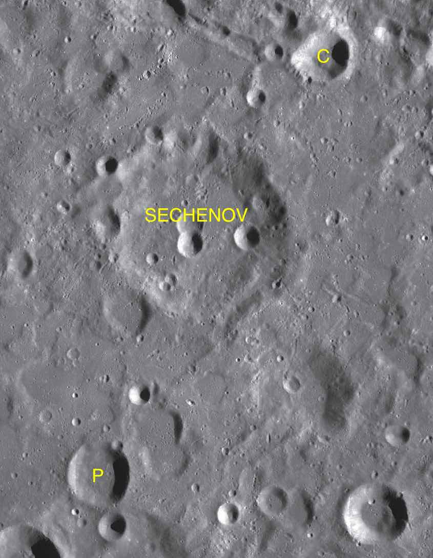 Part of the chart LAC-88 used for the presentation.